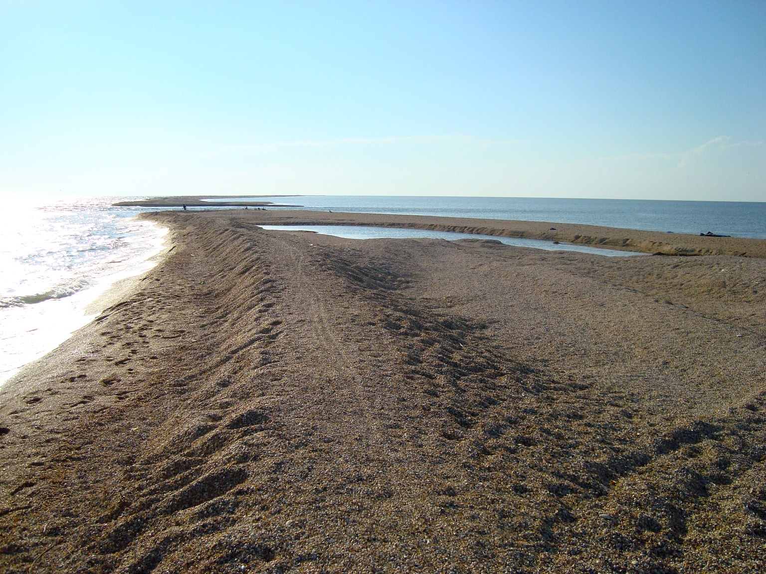 Dolgaya spit. Near stanitsa Dolzhanskaya, Russia. Sea of Azov.